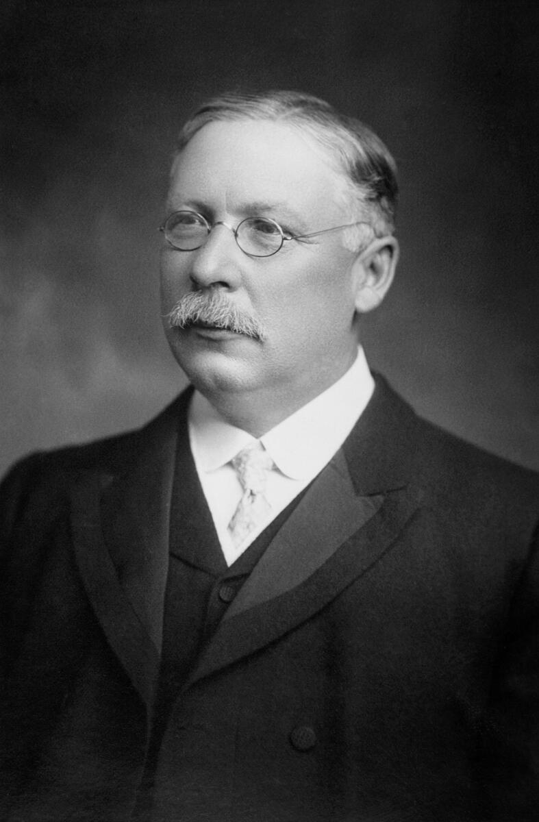 Alexander Cameron Rutherford, by Elliott and Fry, London, England.Image No: NA-1514-5 Title: Honourable A.C. Rutherford, Edmonton, Alberta. Date: [ca. 1908-1910] Photographer/Illustrator: Elliott and Fry, London, England. Remarks: Premier 1905-1910 (Liberal). Copy of PA-83-432. Subject(s): Politicians / Premiers - Alberta / Eye glasses / Edmonton, Alberta - Personalities